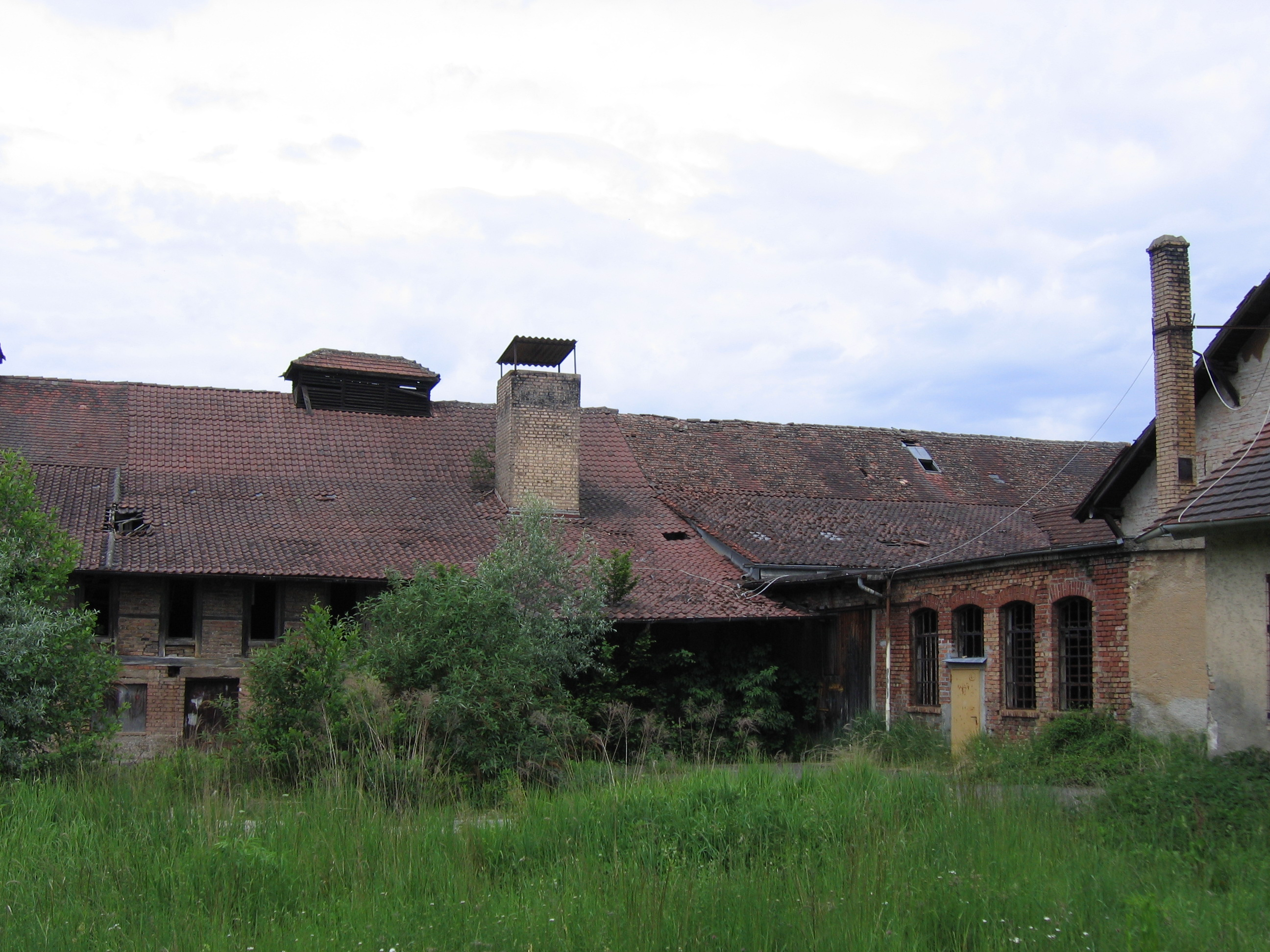 Germany - Baden-Württemberg - district Bodenseekreis - Friedrichshafen: former "Grenzhof"